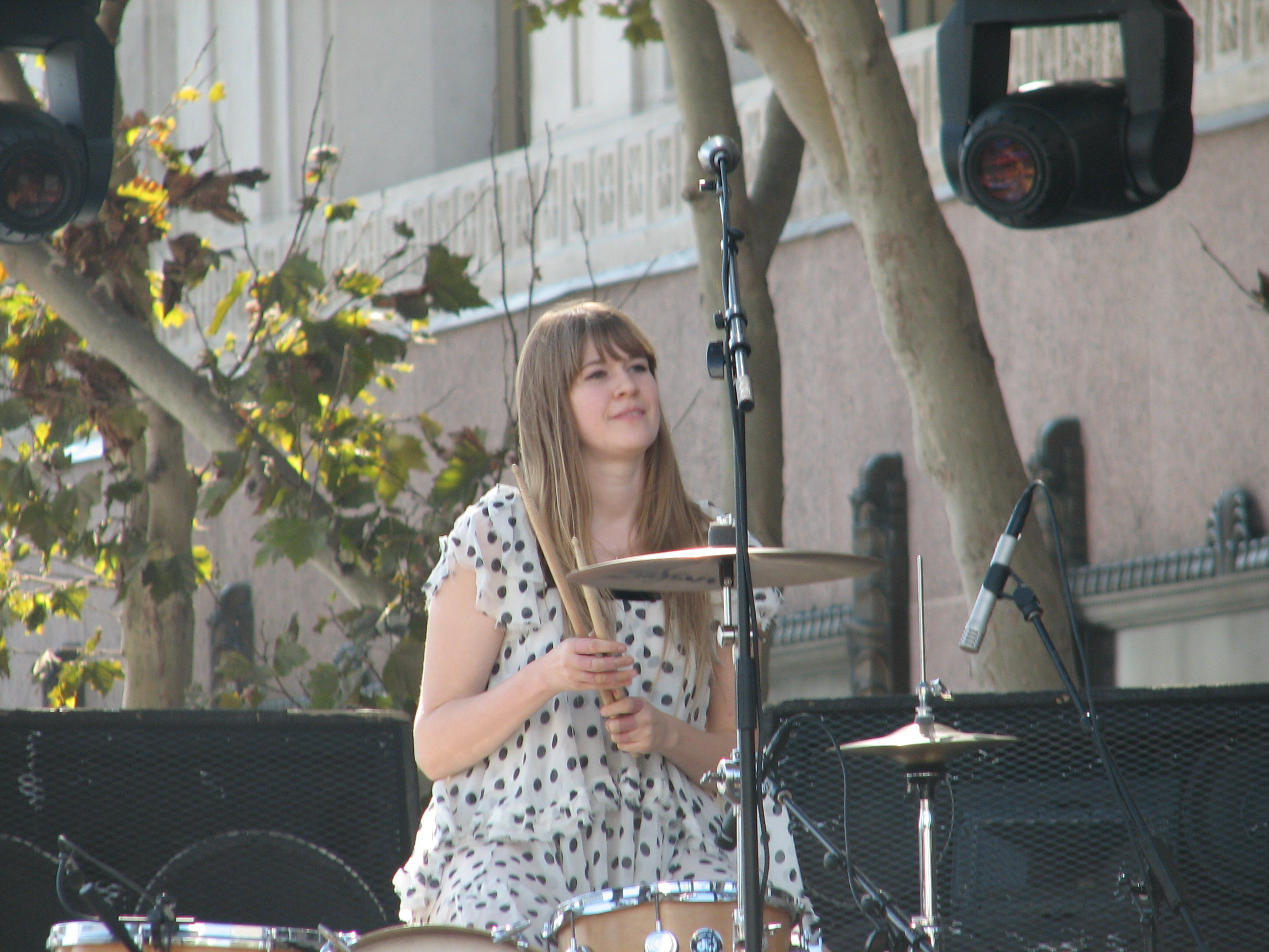 Tennessee Thomas playing drums at Detour 2006.